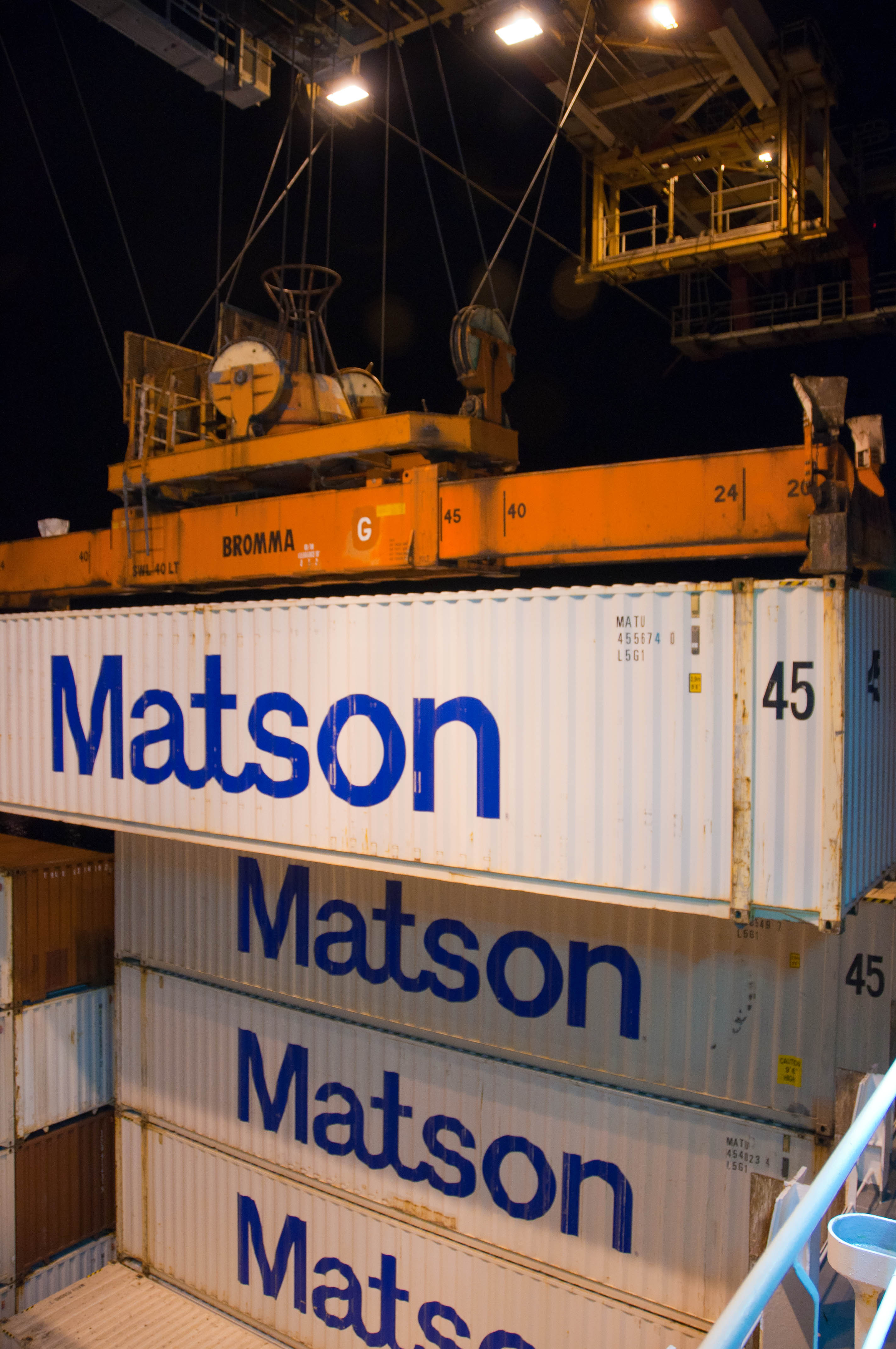 They are big and very load when they drop into place. These were all empty but were being loaded for the ride to China. When we were there there were 3 cranes loading the ship.